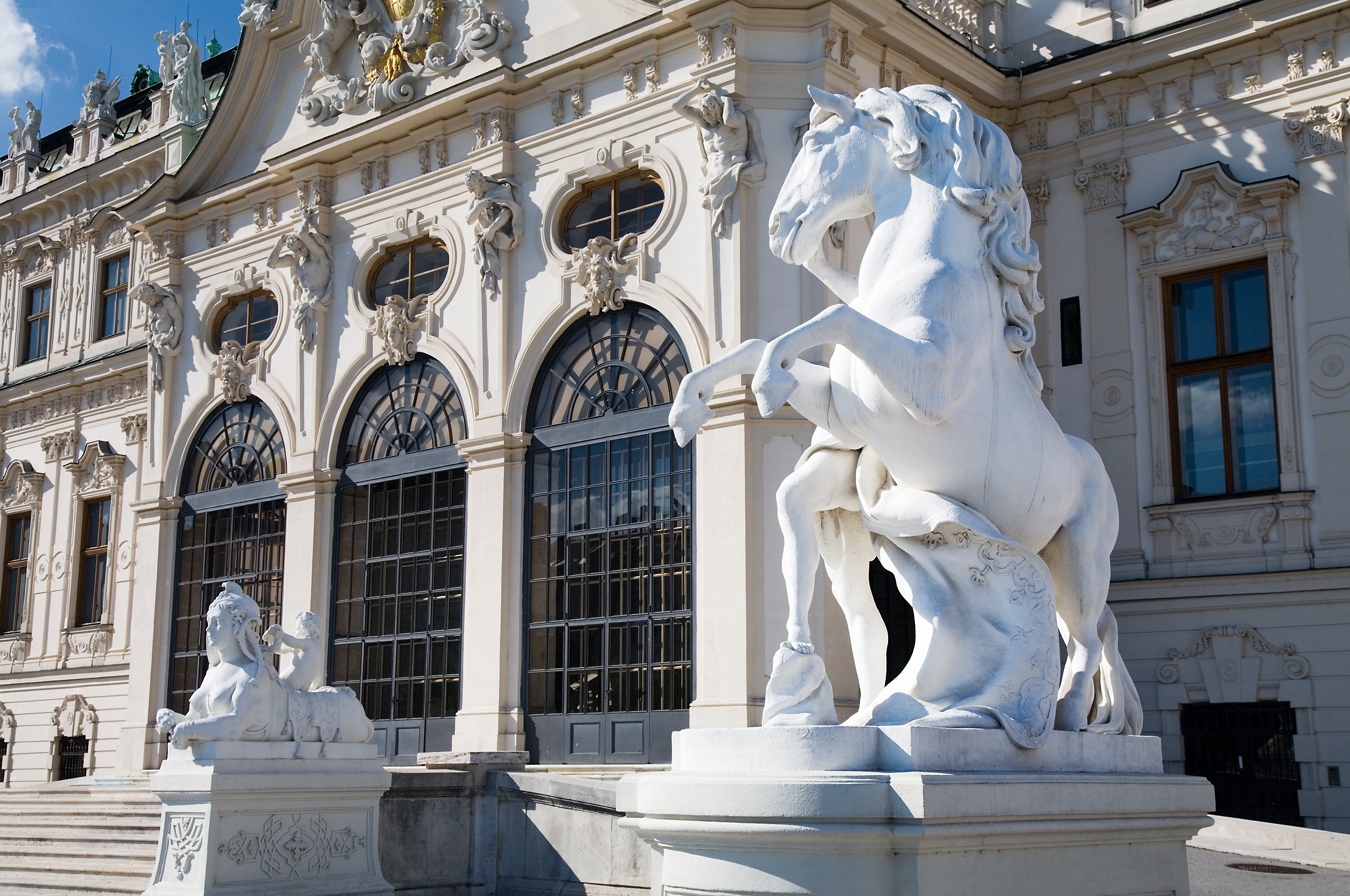 Belvedere Palace, Vienna, Austria